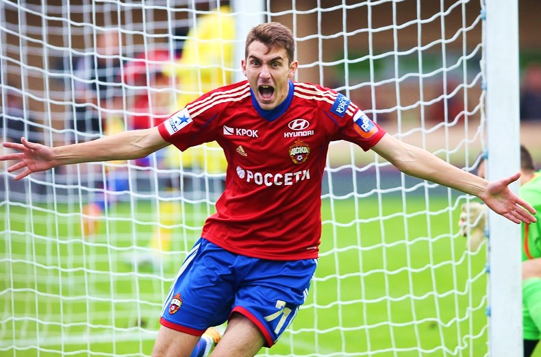 Konstantin Bazelyuk